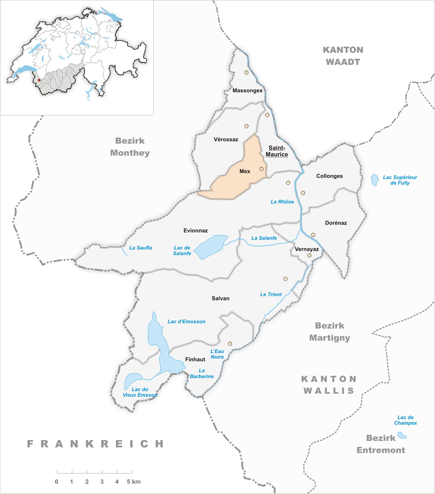 Municipality Mex